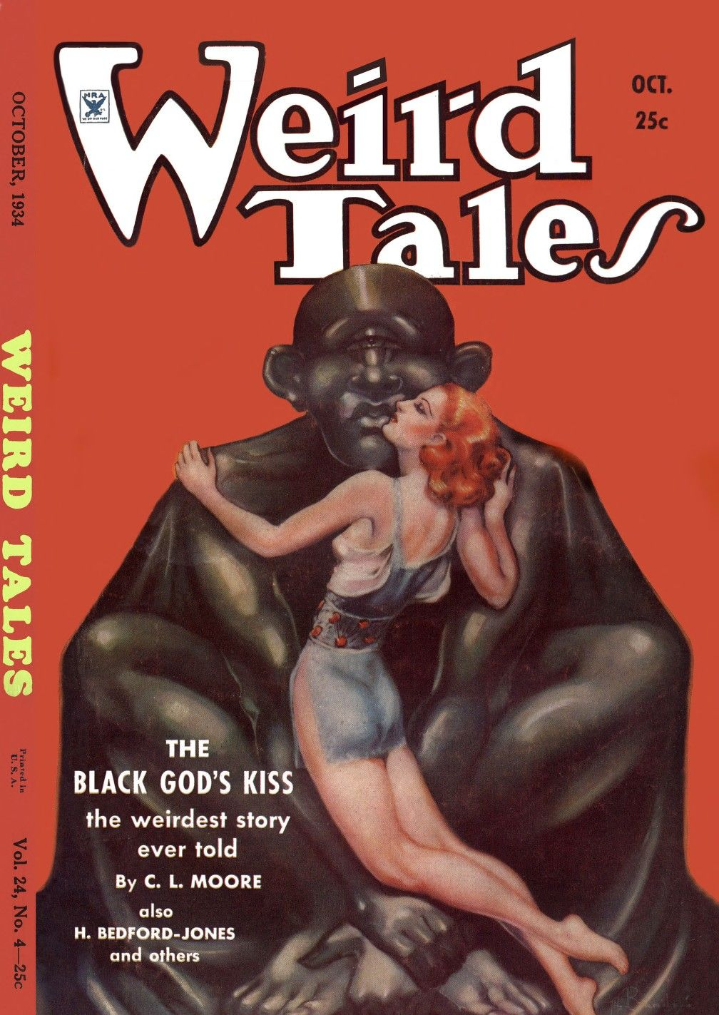 Cover of the pulp magazine Weird Tales (October 1934, vol. 24, no. 4) featuring The Black God's Kiss by C. L. Moore (first of the Jirel of Joiry stories). Cover by Margaret Brundage.